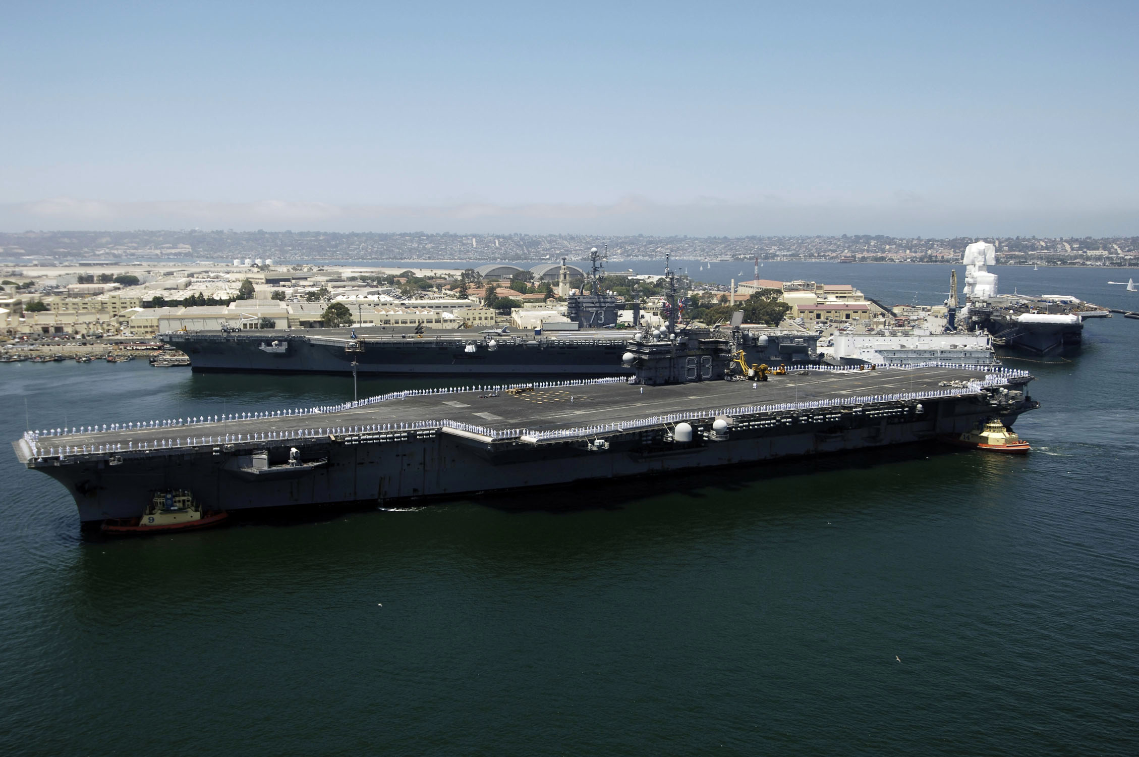 080807-N-7883G-363 SAN DIEGO - The aircraft carrier USS Kitty Hawk (CV 63) moves past the nuclear-powered aircraft carrier USS George Washington (CVN 73), in background, as Kitty Hawk prepares to moor at Naval Air Station North Island upon her return to San Diego Thursday, Aug. 7, 2008. Kitty Hawk will be decommissioned next year in Bremerton, Wash. The 46- year-old carrier is the oldest active-duty warship in the Navy and will be replaced this summer George Washington as the Navy's only permanently forward-deployed aircraft carrier.